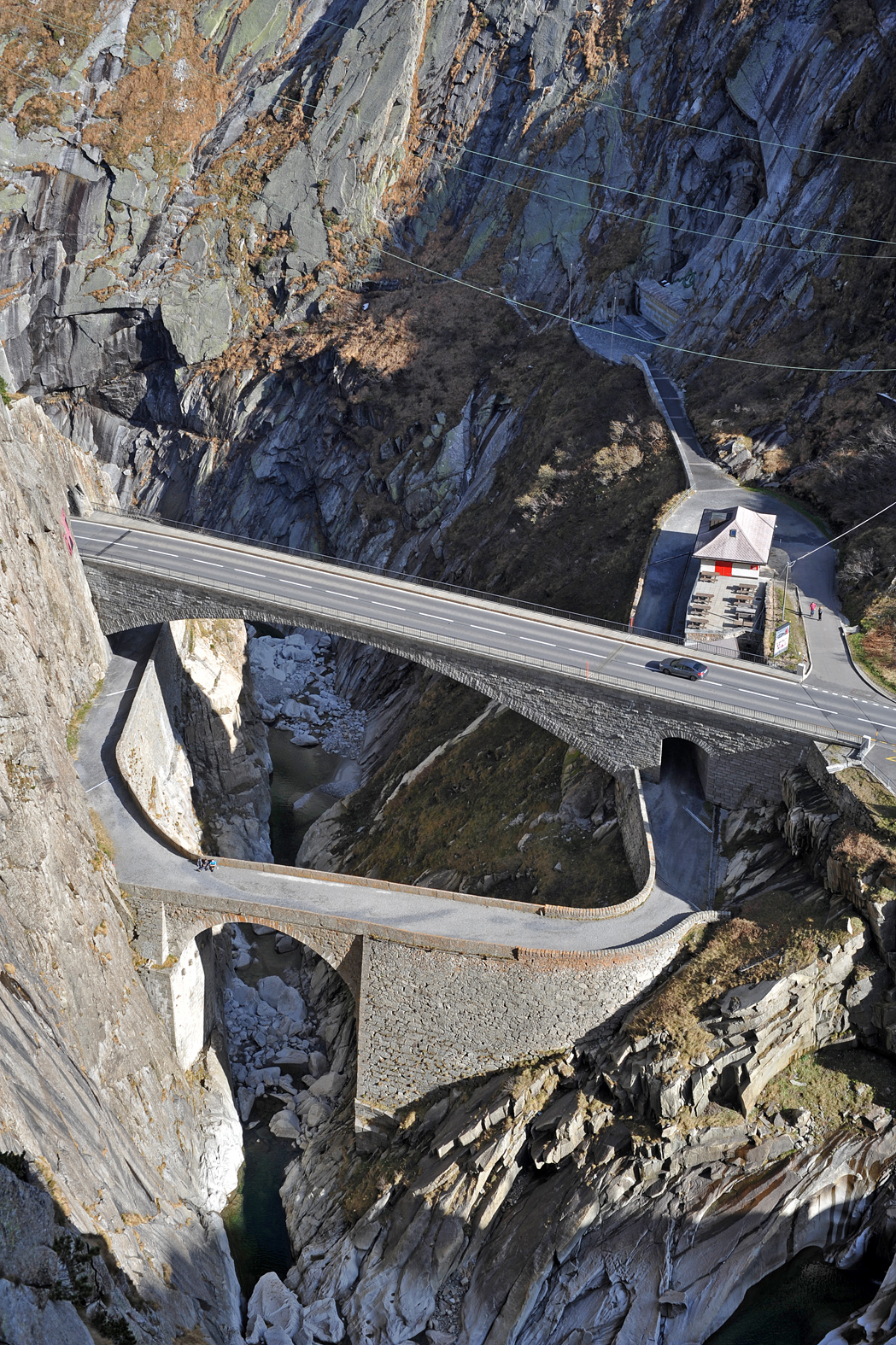 Devil's bridges in the Schöllenen canyon, Uri, Switzerland. From front (bottom of image) to background: the second Devil's Bridge (1830), new Devil's Bridge (1956), the Suvorov monument.